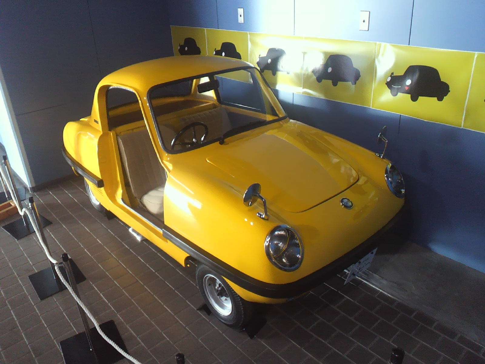 Datsun Baby in Tomakomai Science Center, Tomakomai, Hokkaido, Japan.